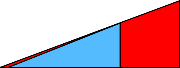 show the missing part